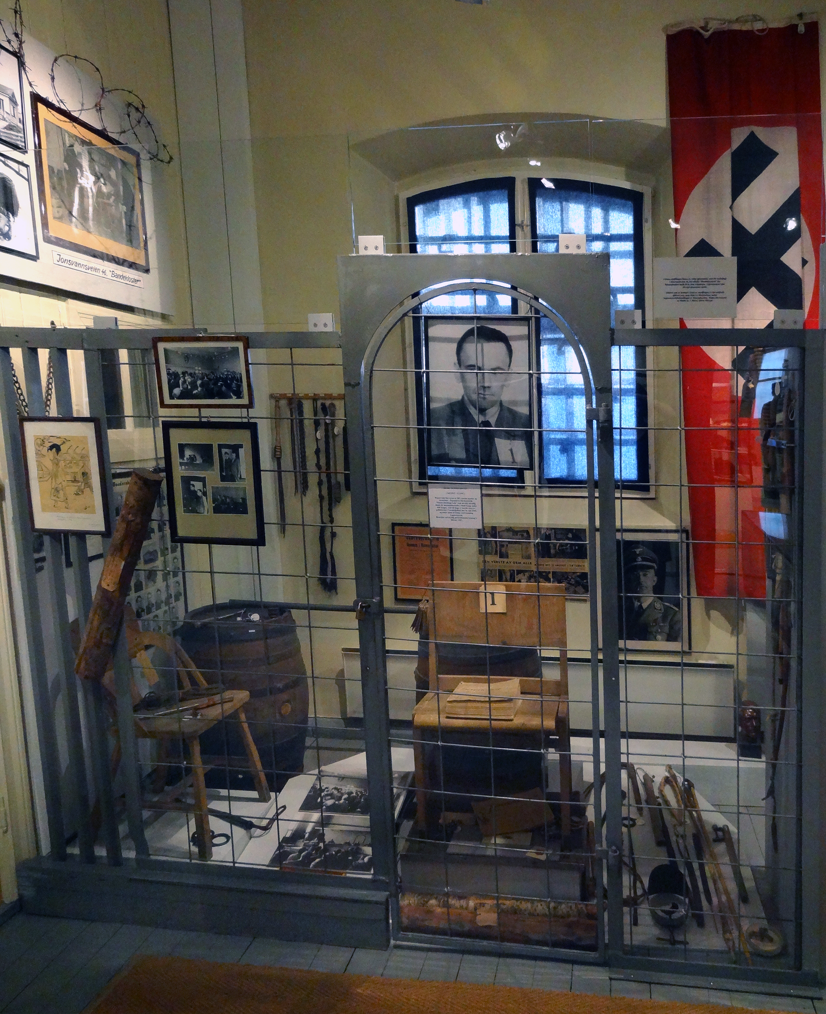 From the museum's exhibition of WW2 showing seized material from the torture center Bandeklosteret. Henry Rinnan was born in 1915 in Levanger, executed by Kristiansten Fortress in 1947. He was associated with the Nazi- German security police in Trondheim during the war. He built up Sonderabteilung Lola (Rinnanbanden, en: the Rinnan gang), who infiltrated opposition groups and led to that hundreds were tortured and more than 80 killed. EF - the Norsk Rettsmuseum